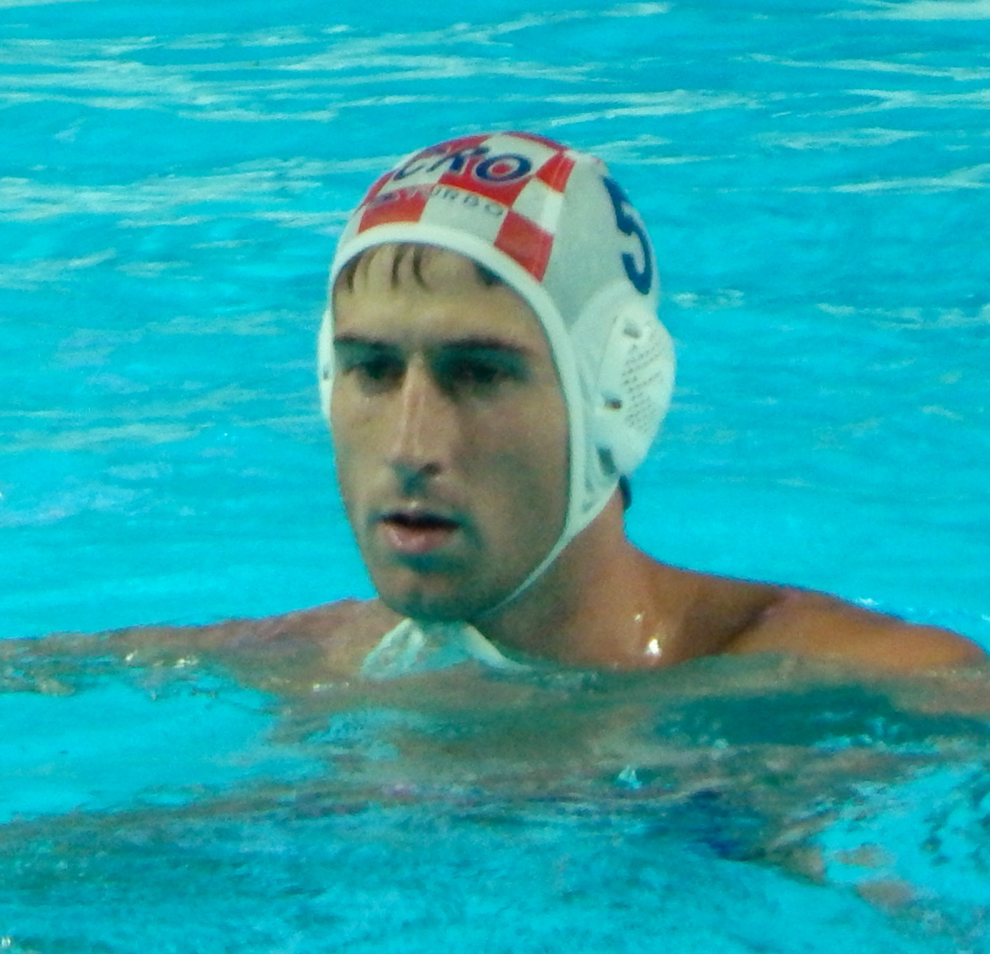 The gold medal match between Team Serbia and Team Croatia and the victory ceremony. All photos have been taken from the photographers sector. I was simply usual visitor but my ticket was to non-existent seats, therefore I was moved to that sector. All good photos I upload to WikiCommons for free use.